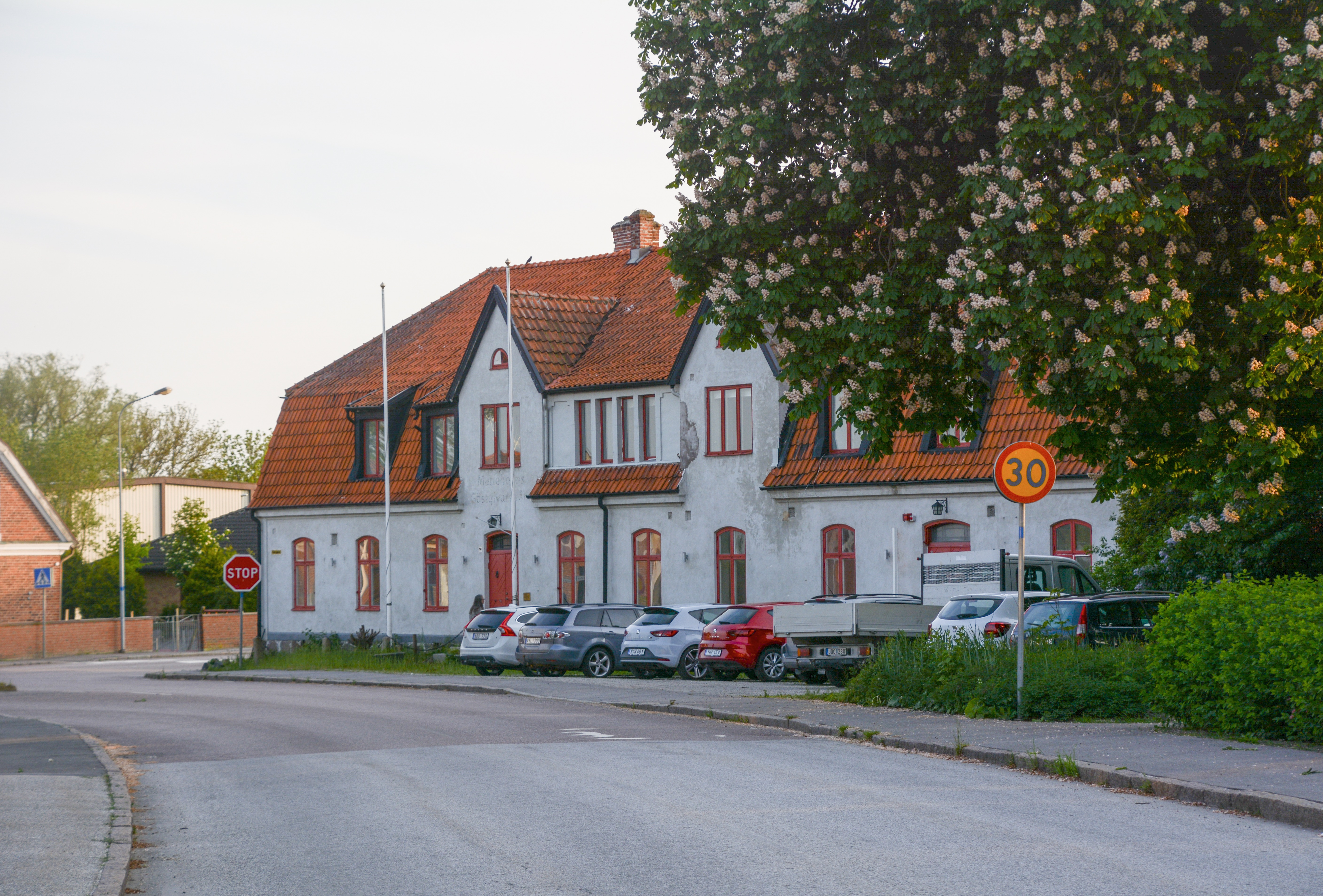 Marieholm Inn (Gästgiveri), Marieholm